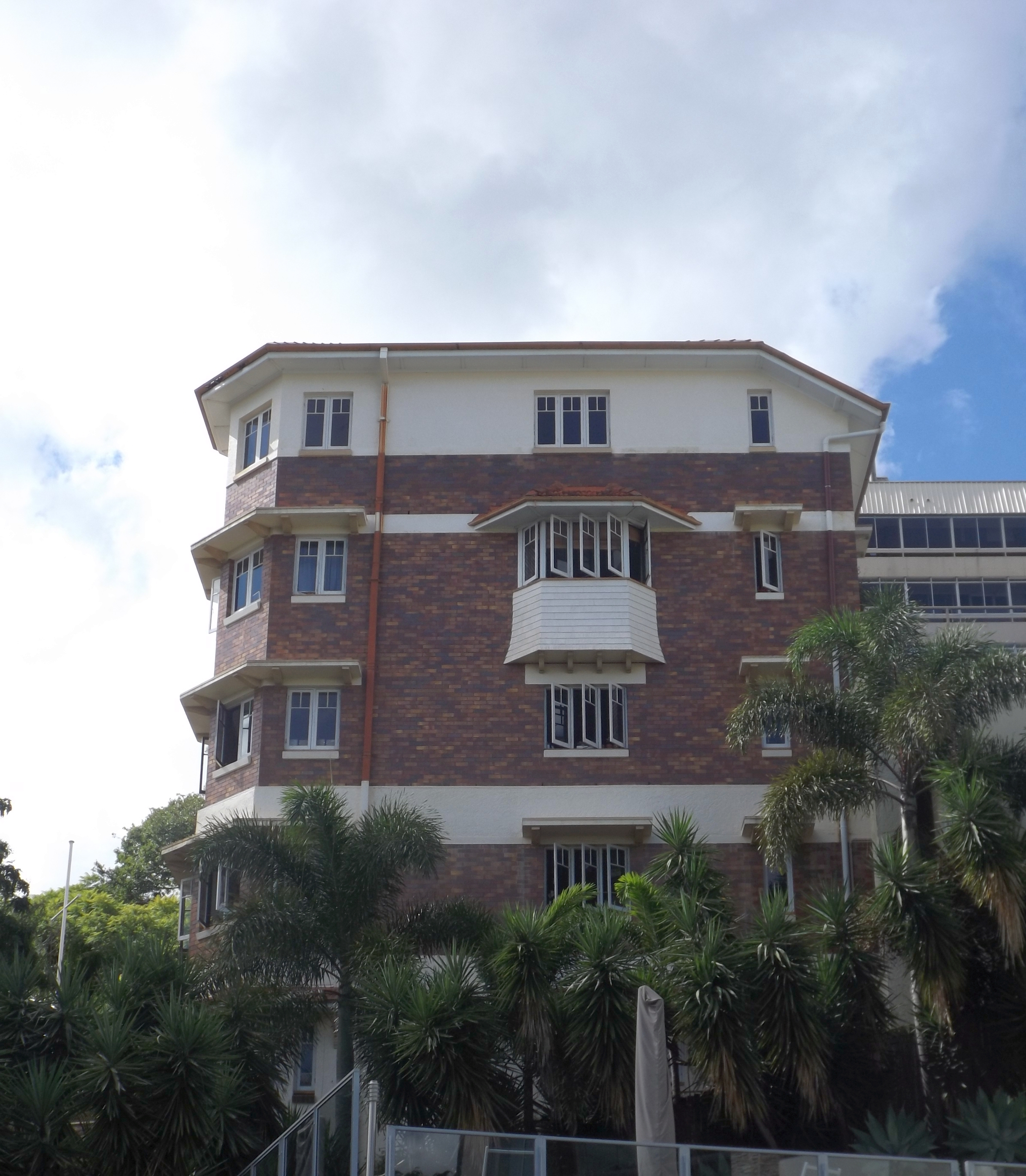 Photo of Cliffside Apartments at Kangaroo Point, Brisbane, Queensland, Australia.